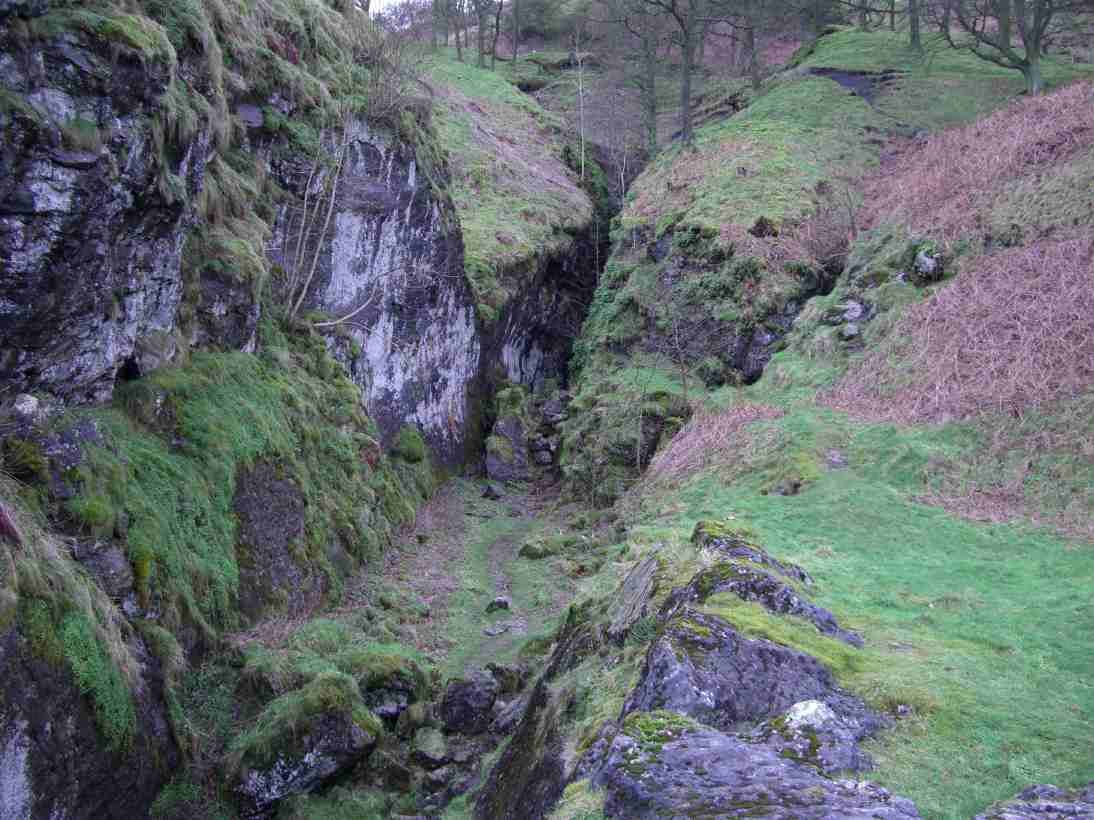 Personal picture taken by Mick Knapton